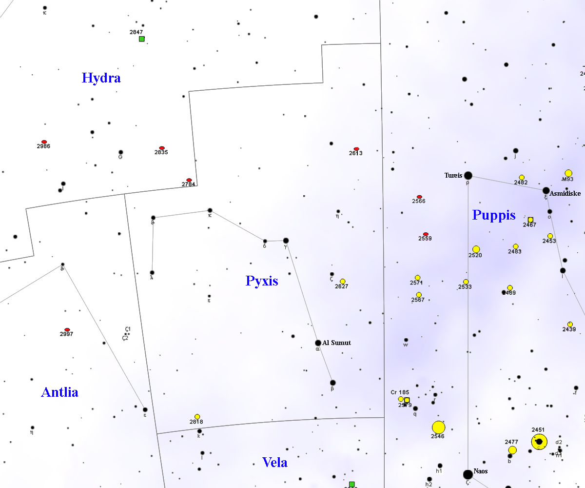 Pyxis constellation map, with DSOs